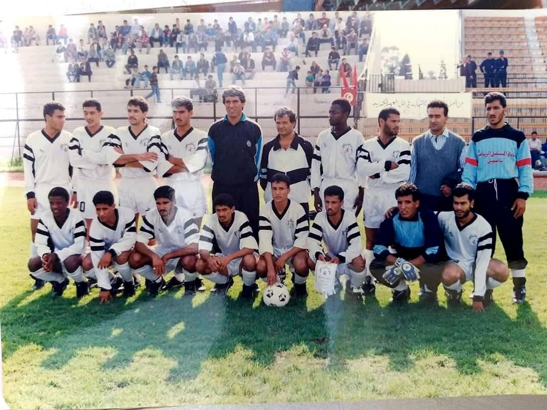 Future club first team seasons 91-92 and 92-93